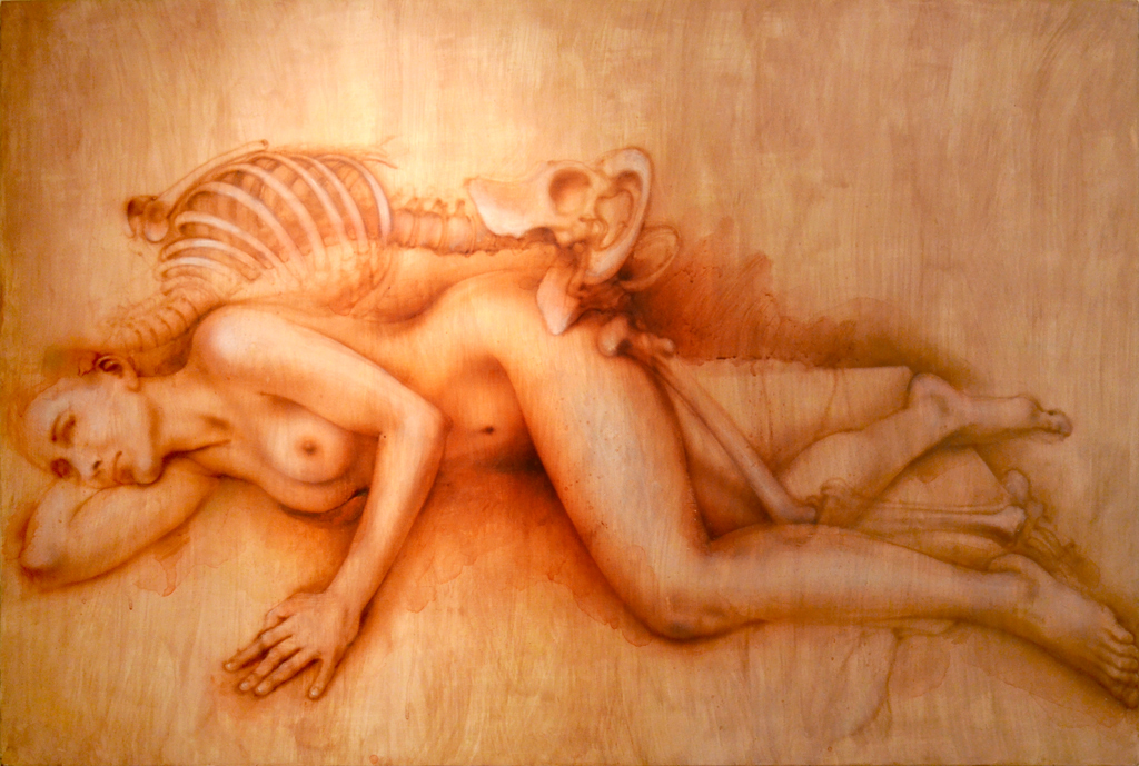 Peter Oriešek, No title VIII, undated, airbrush, 83x125 cm